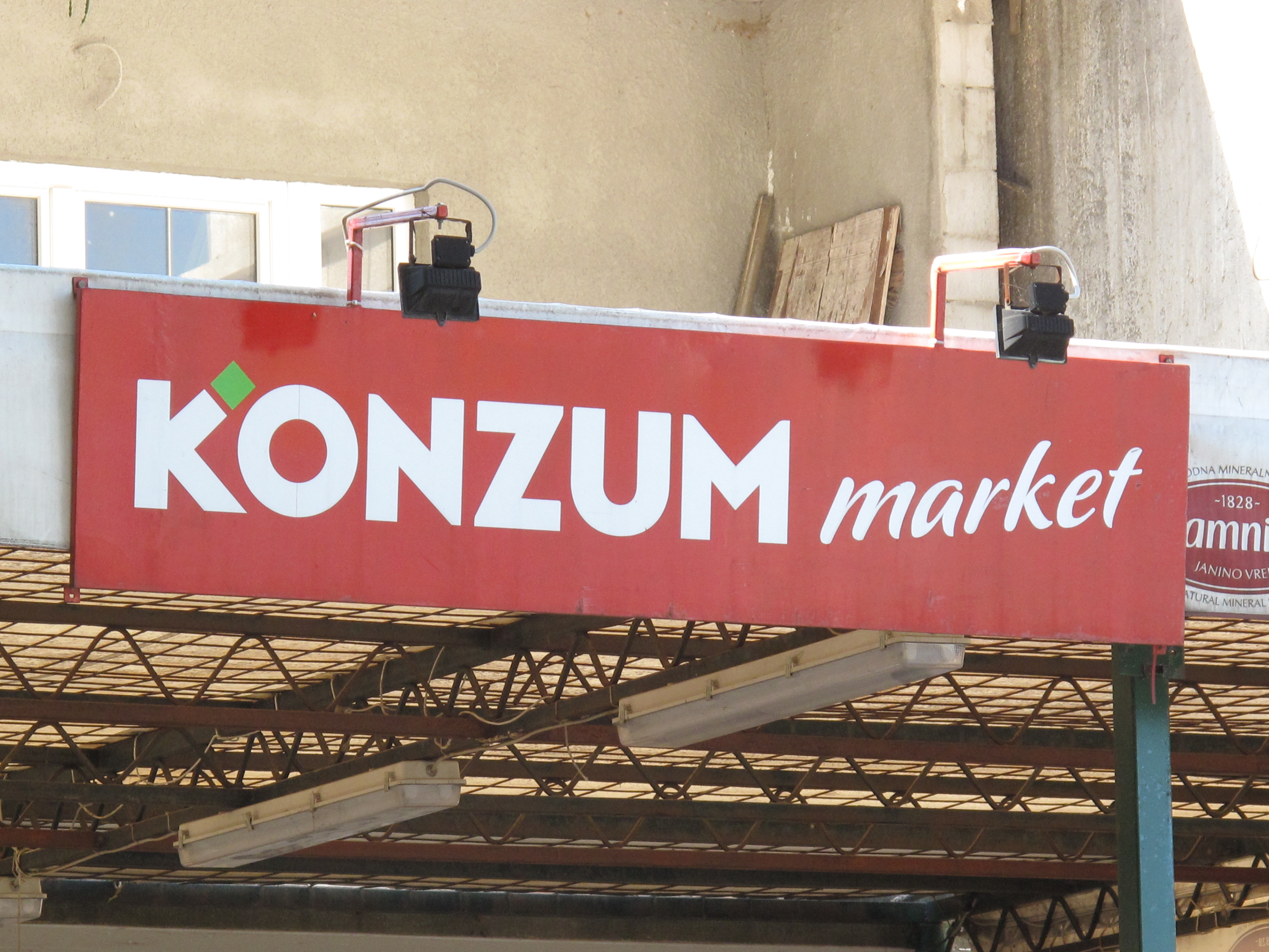 Konzum in the Lumbarda, Croatia.